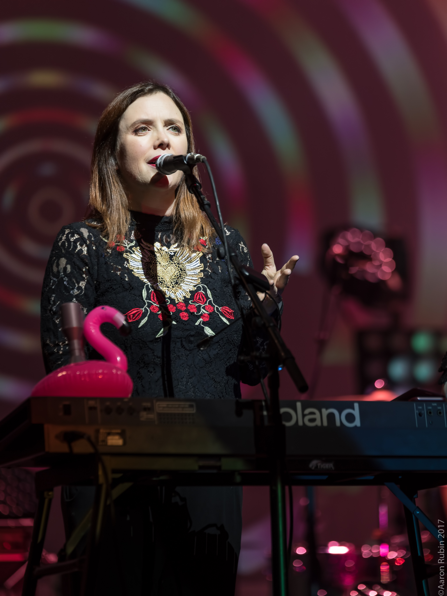 Rachel Goswell of Slowdive at the Fox Theater in Oakland, California 2017